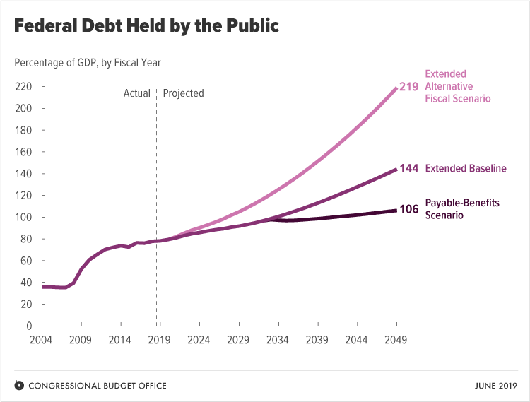 The actual and projected United States Federal Debt Held by the Public as percentage of GDP.